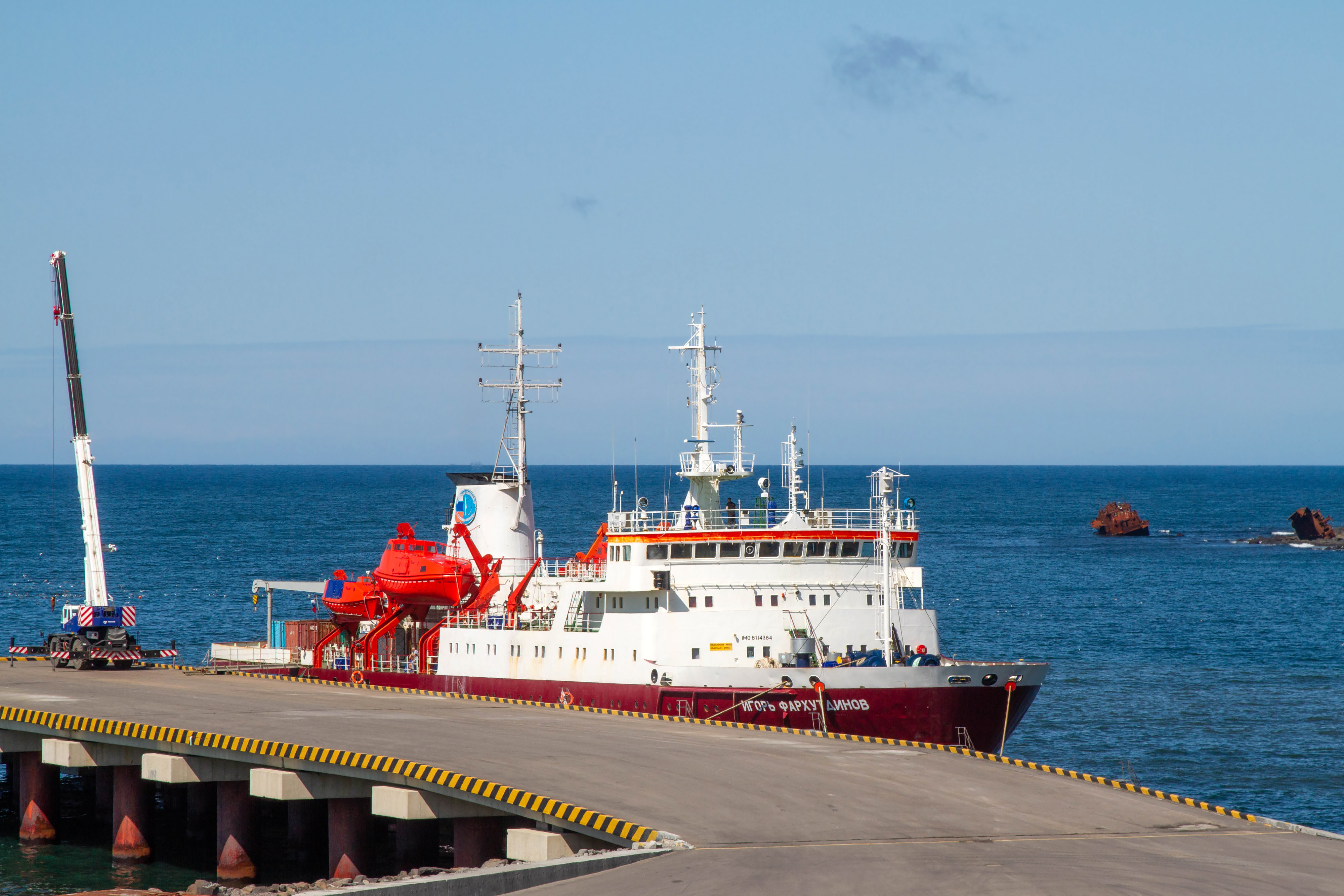 Kitovy village, iturup